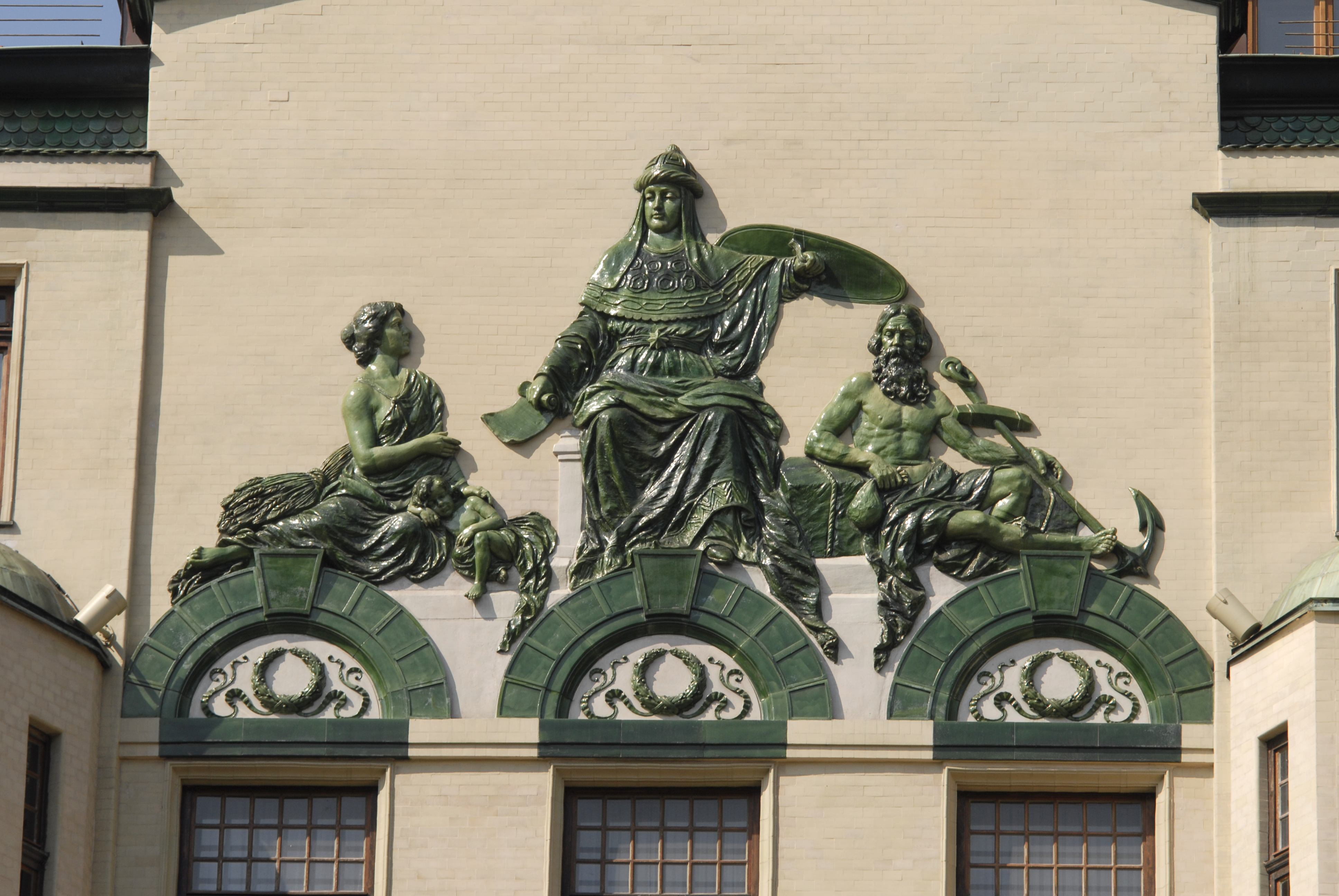 Hotel Moscow, Belgrade